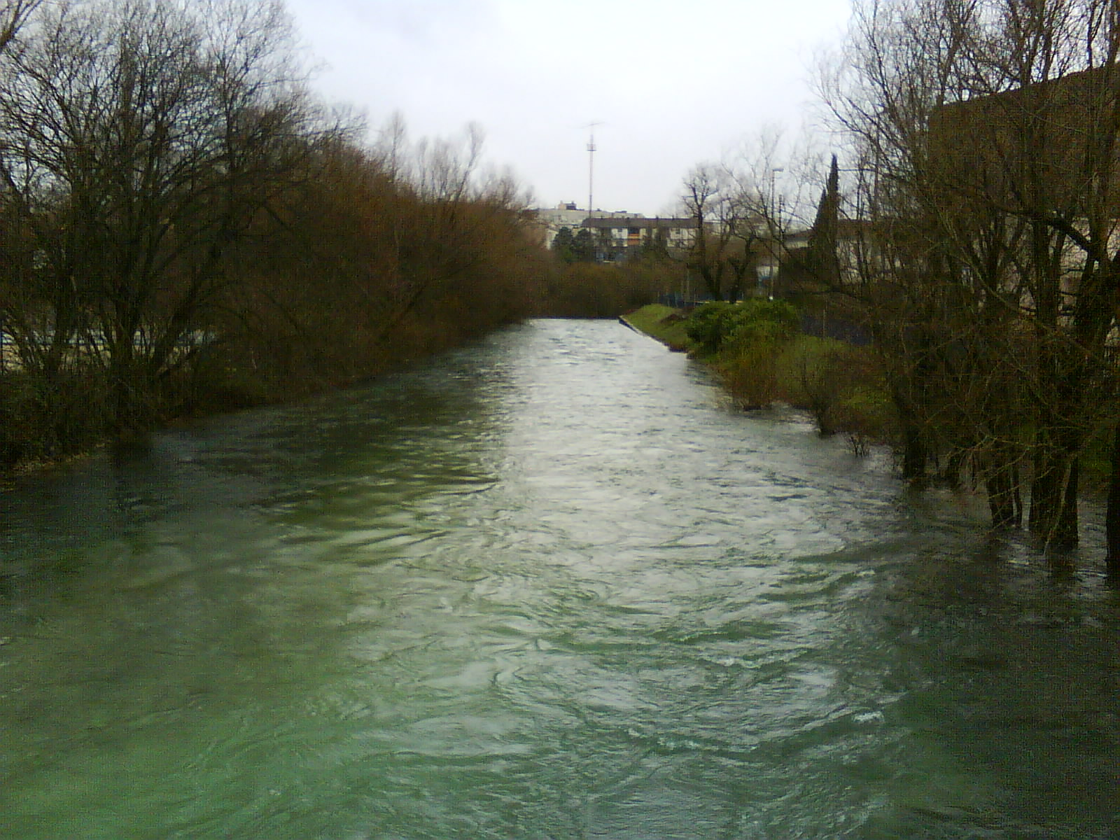 Lištica river in Široki Brijeg